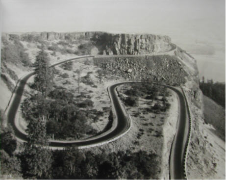 Columbia River Highway loops at Rowena in Wasco County.